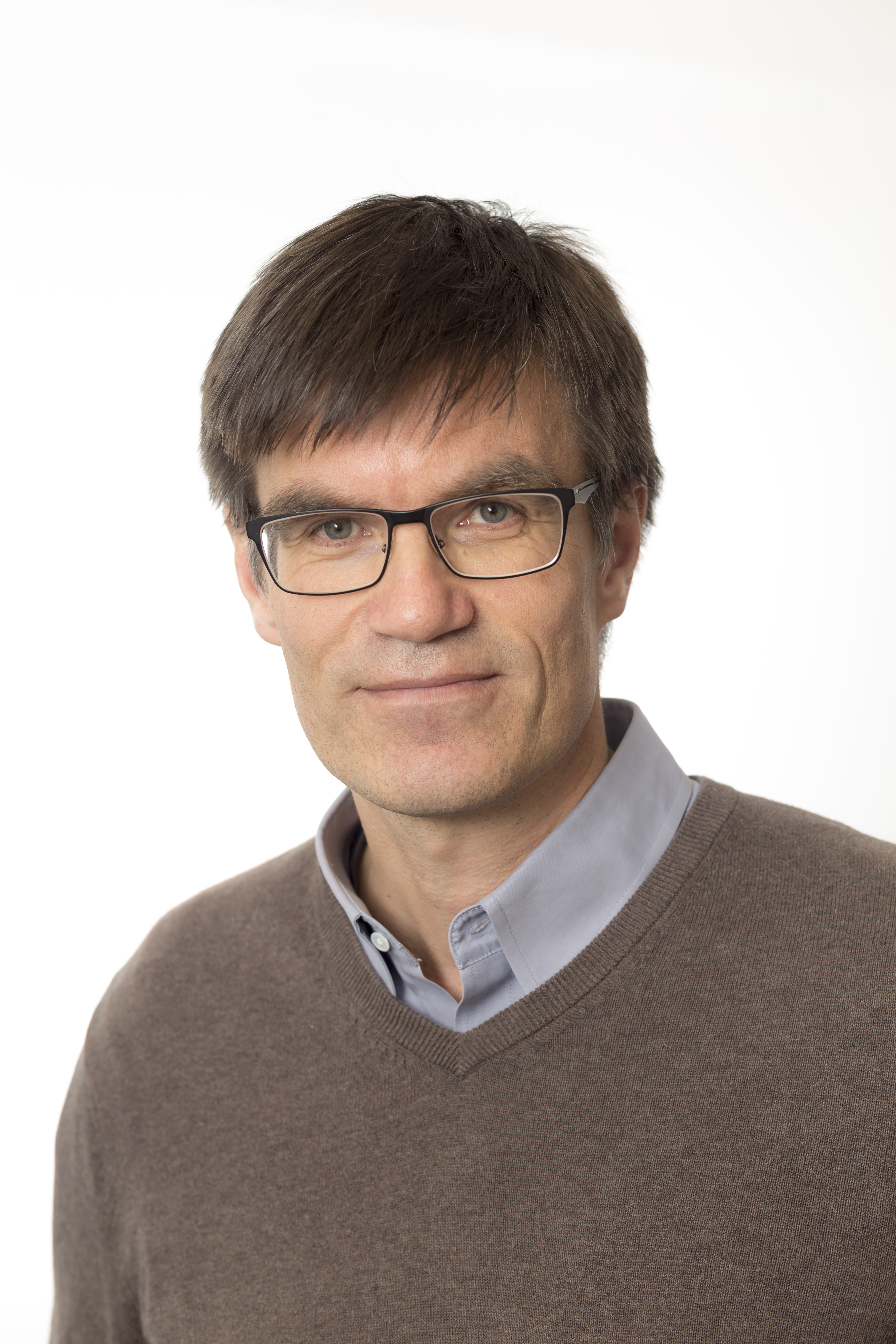 Asgeir J. Sørensen, direktør for NTNU AMOS - Centre for Autonomous Marine Operations and Systems. Et av fire senter for fremragende forsking (SFF) ved NTNU. Foto: Thor Nielsen